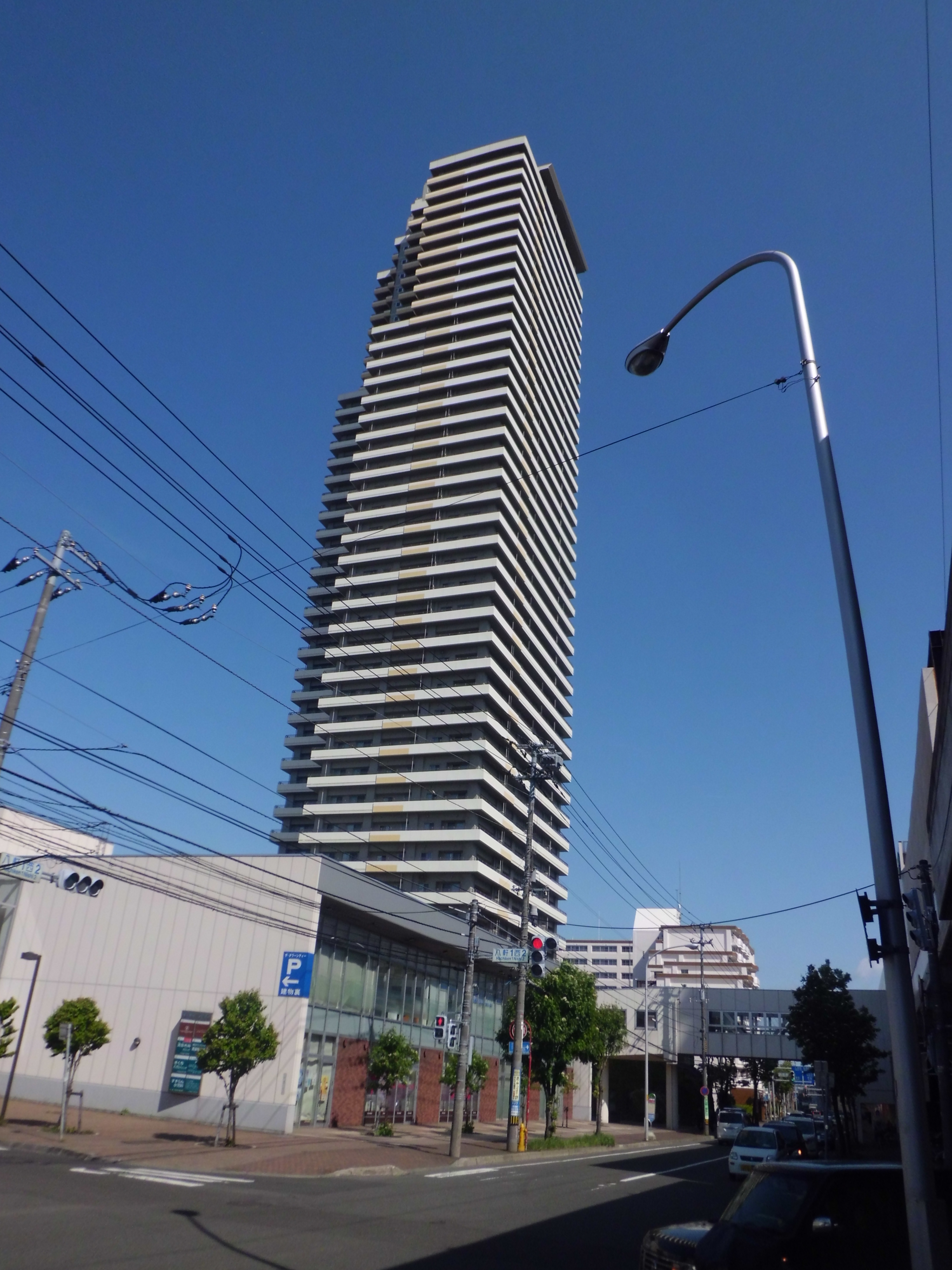 The Sapporo Tower Kotoni